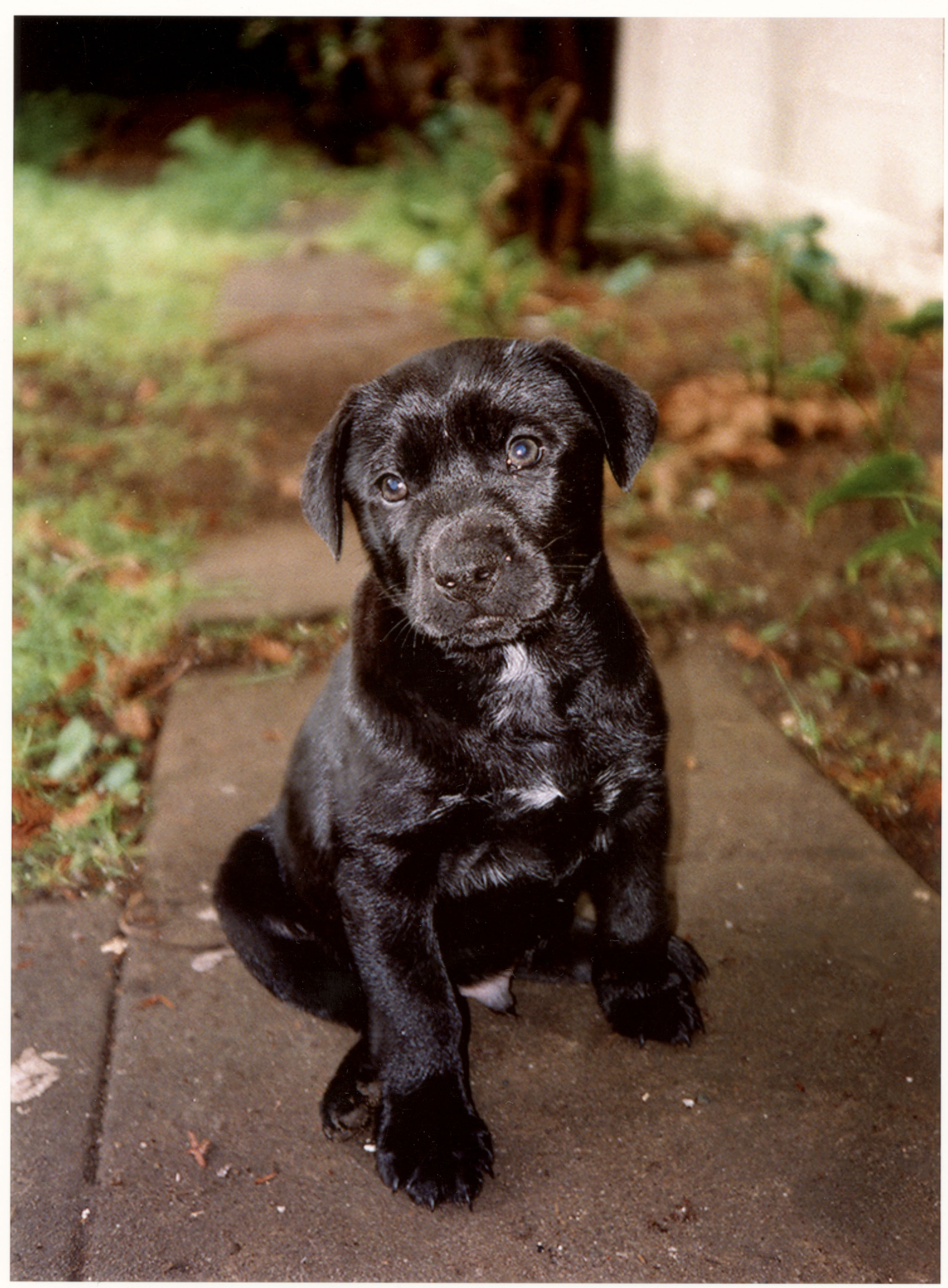 Black Lab Mix puppy from the SFSPCA.